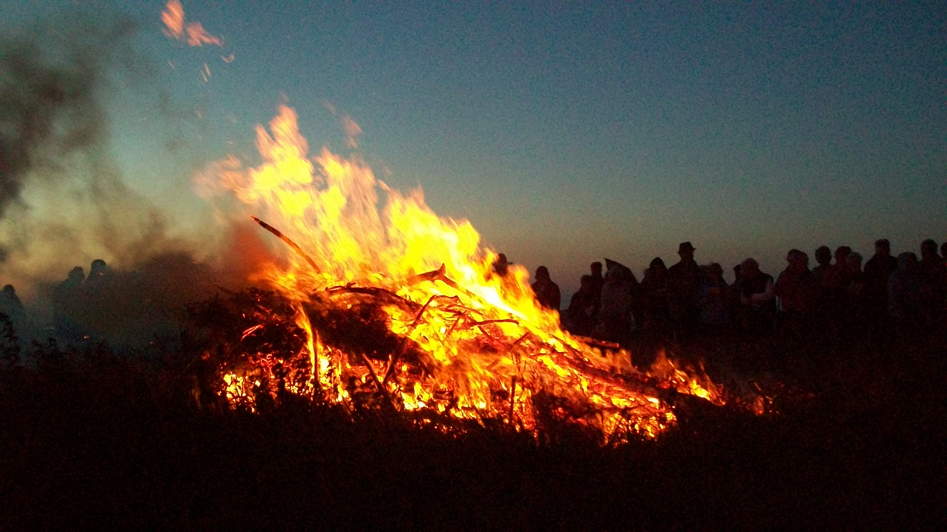 Traditional Cornish Hilltop bonfire. Midsummer's eve 2009